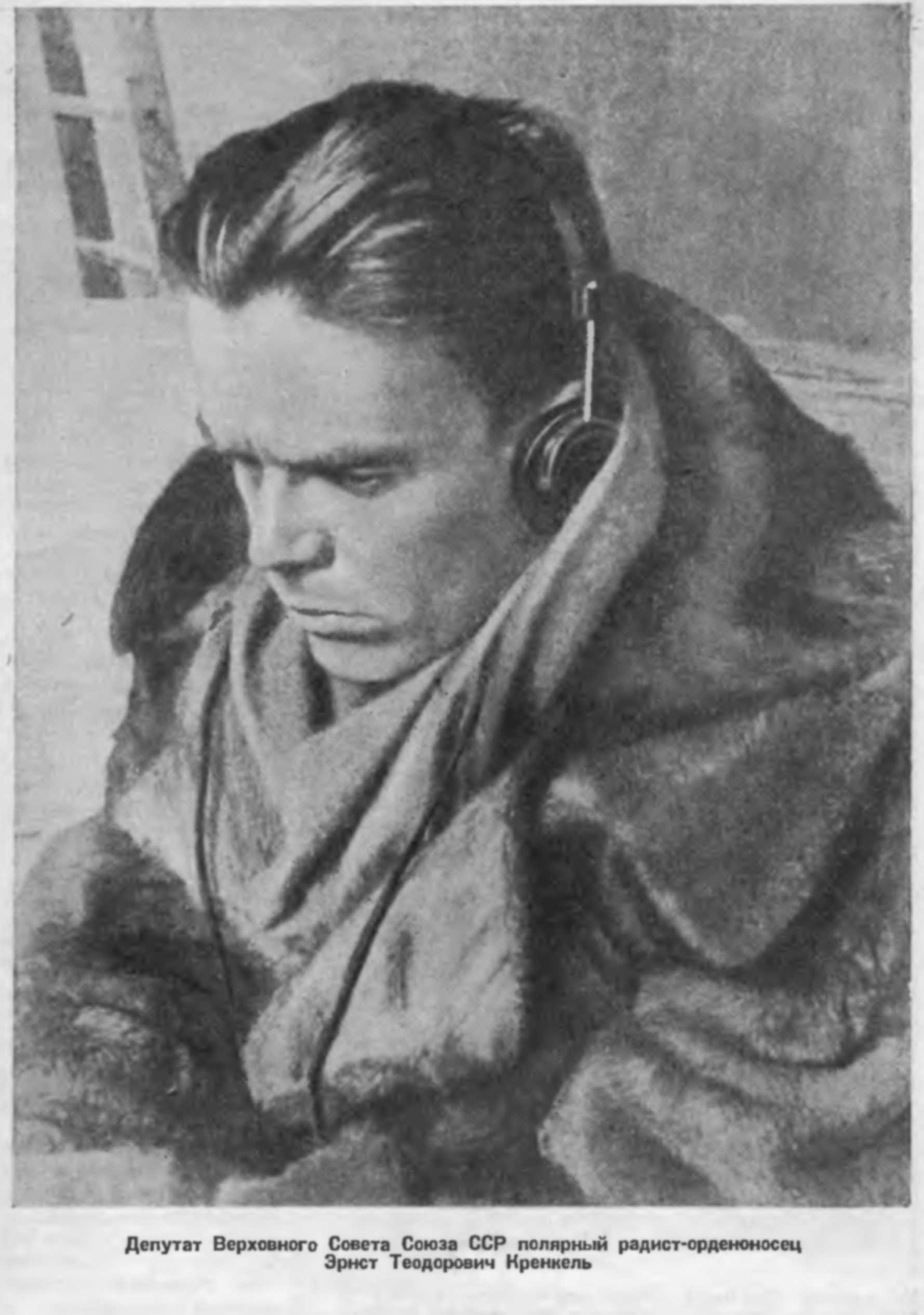 Ernst Krenkel as Arctic radio operator